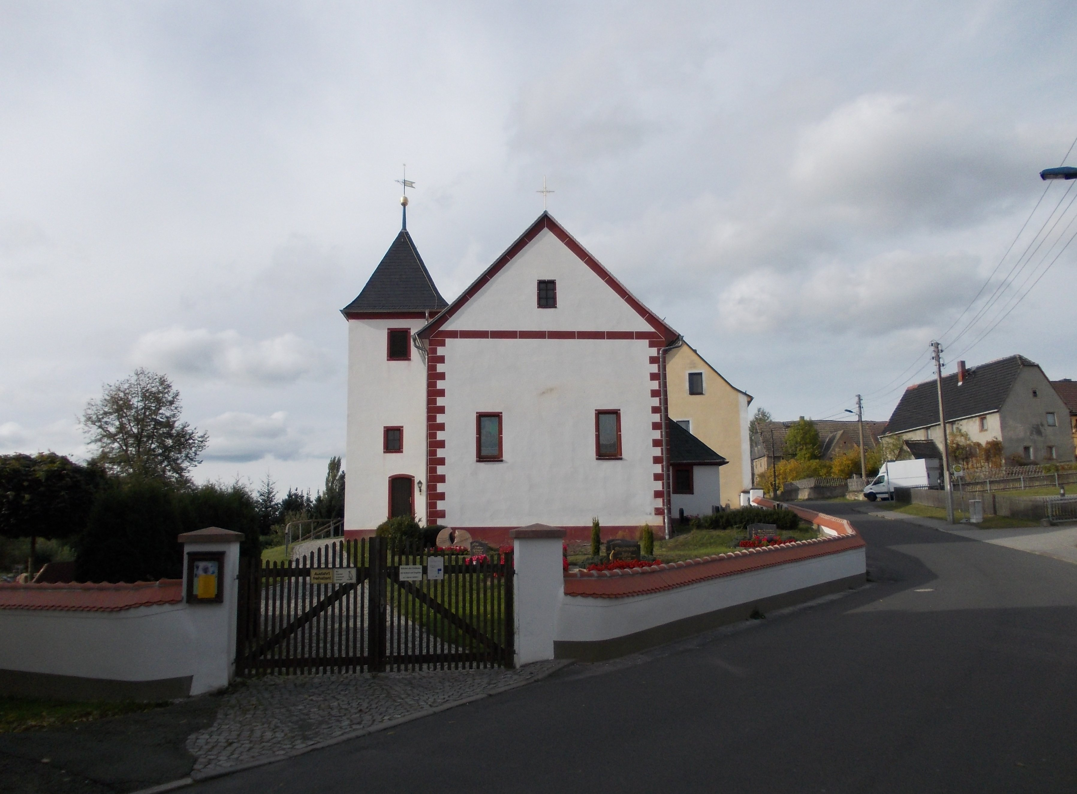 Buchheim church (Bad Lausick, Leipzig district, Saxony)